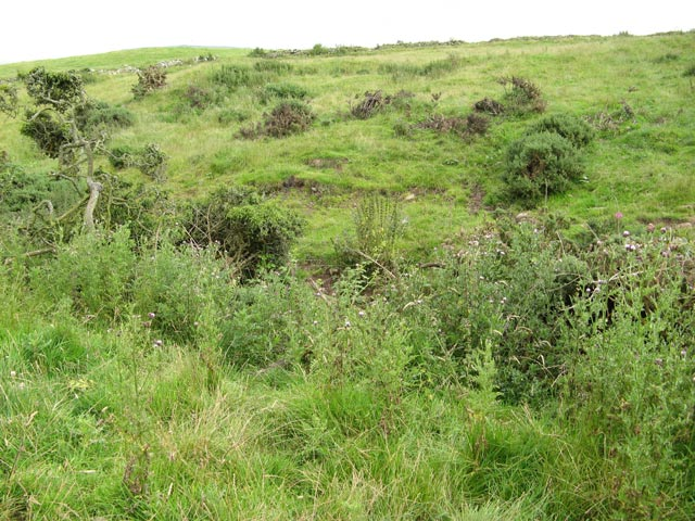 Only a vestigial square shape in the grass can now be discerned, an outline in nettles and gorse above the rubble of walls long-gone. As a consequence of difficult access the church was moved in the early seventeenth century to a new one above Drummore.